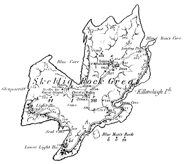 historical map of Skellig Michael Island, Ireland